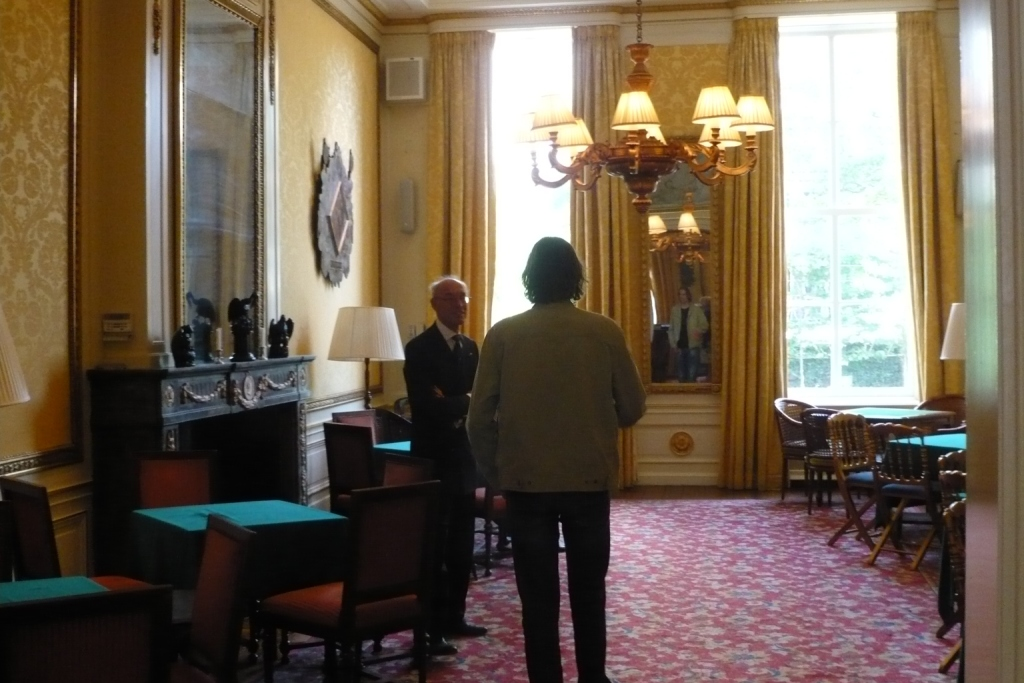 Back room, The house with the stairs, Grote Houtstraat Haarlem.